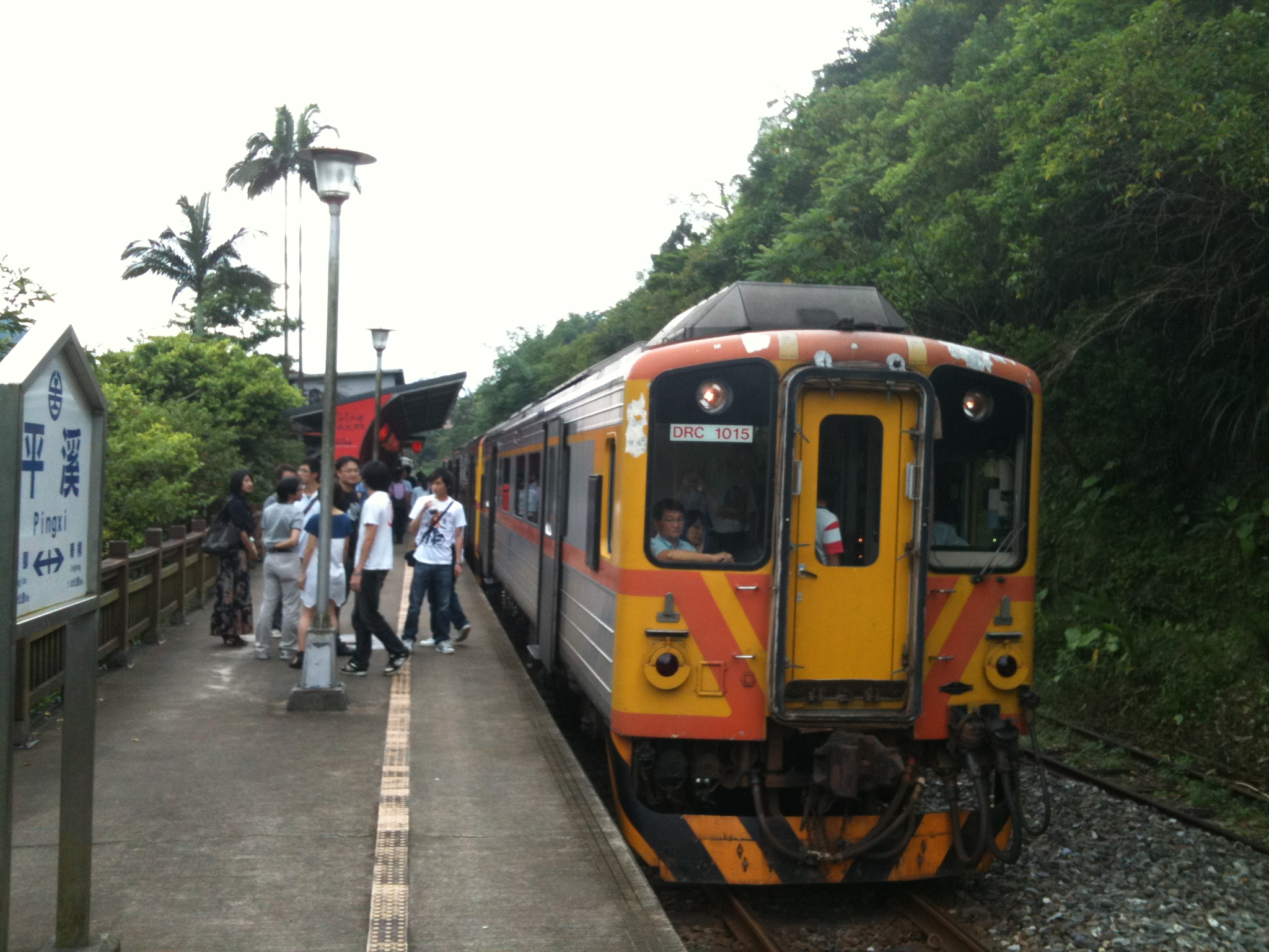 Taiwan Railway Administration DRC1015 stopped at Pingxi Station.